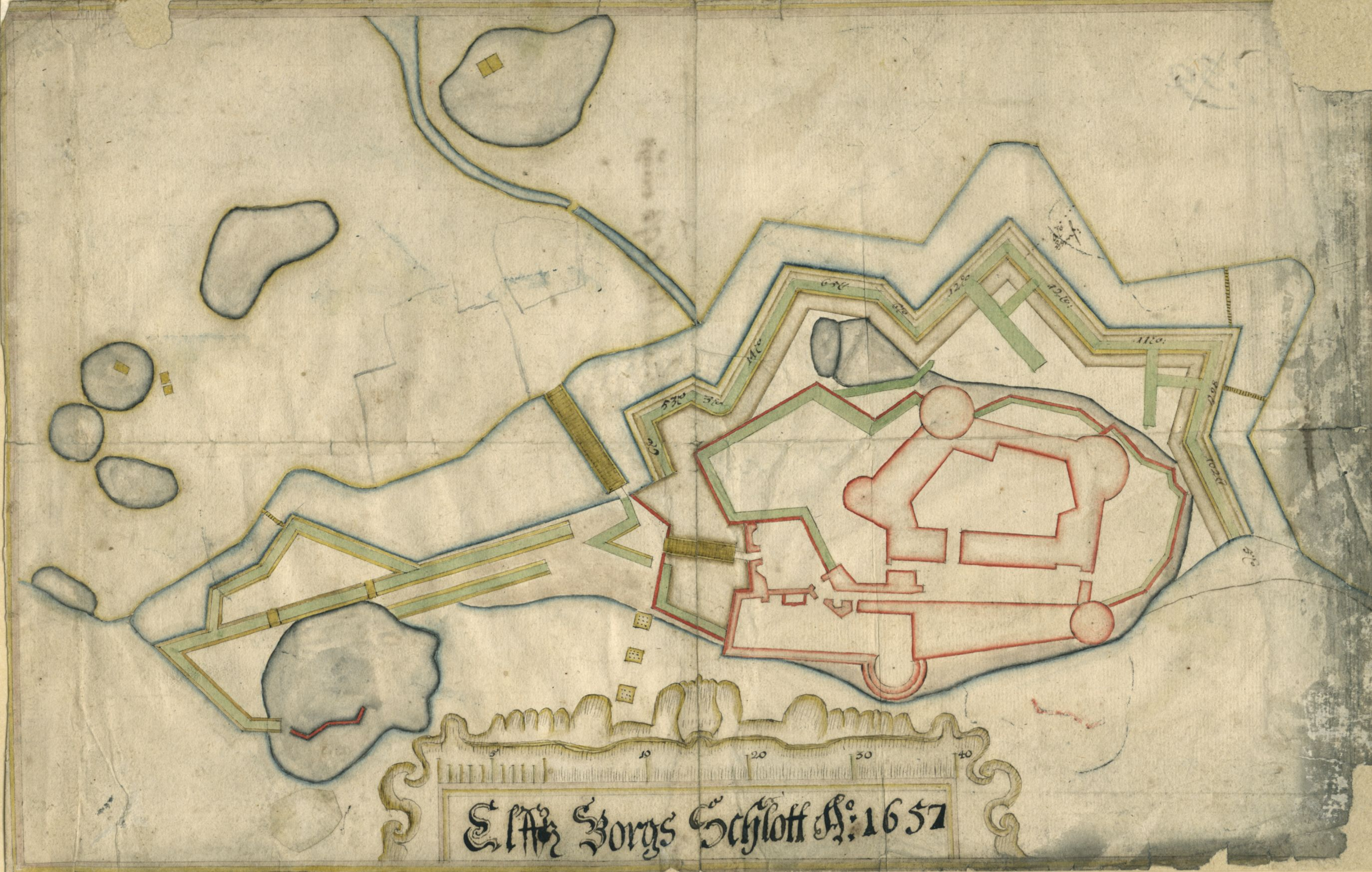 Älvsborg Castle, view from north (Göta Älv river), in 1657. Drawing from Swedish War Archives.